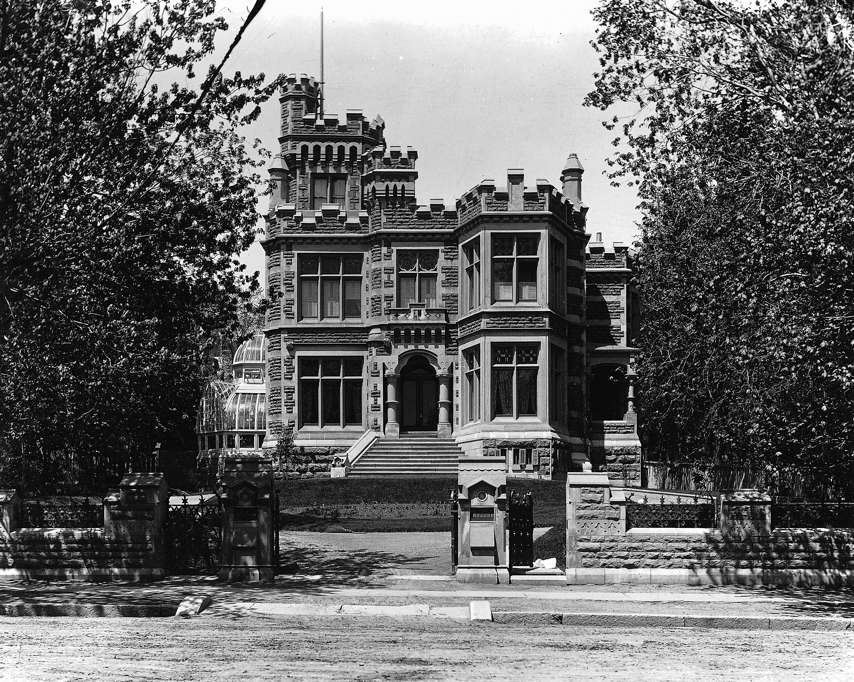 Photograph : "Rokeby", A. F. Gault's house, Sherbrooke Street, Montreal, QC, about 1885; Wm. Notman & Son; About 1885, 19th century; Silver salts on glass - Gelatin dry plate process; 20 x 25 cm; Purchase from Associated Screen News Ltd.; VIEW-2463; McCord Museum.